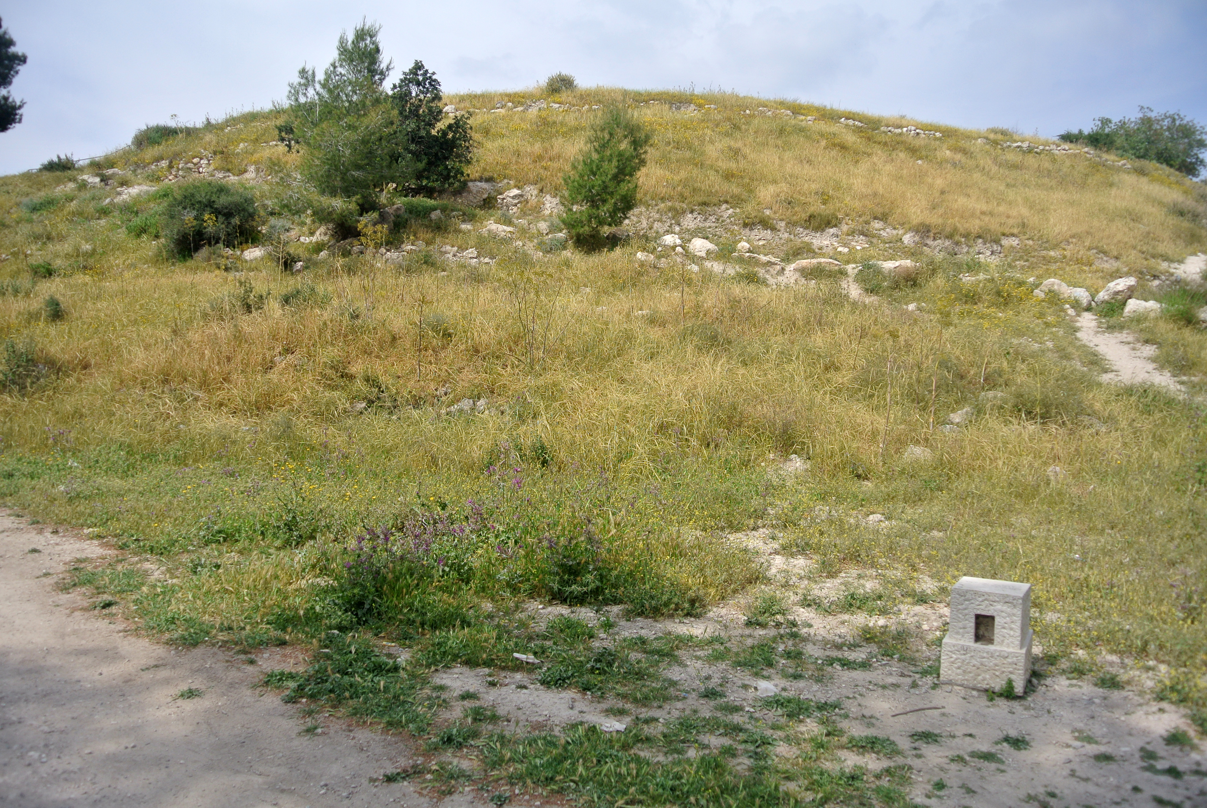 Tel Azeka, Israel.